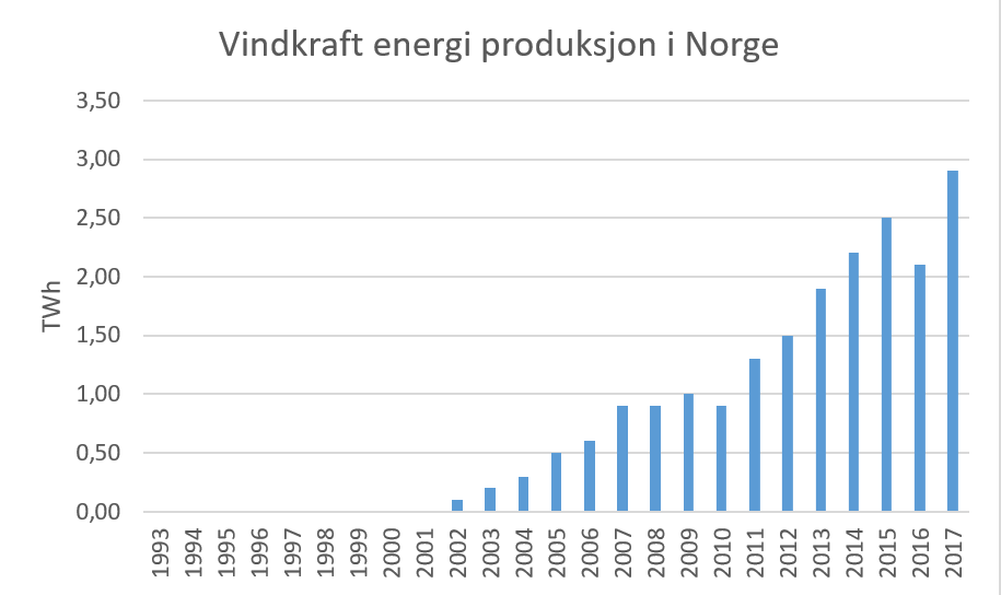 Wind energy produksjon in Norway